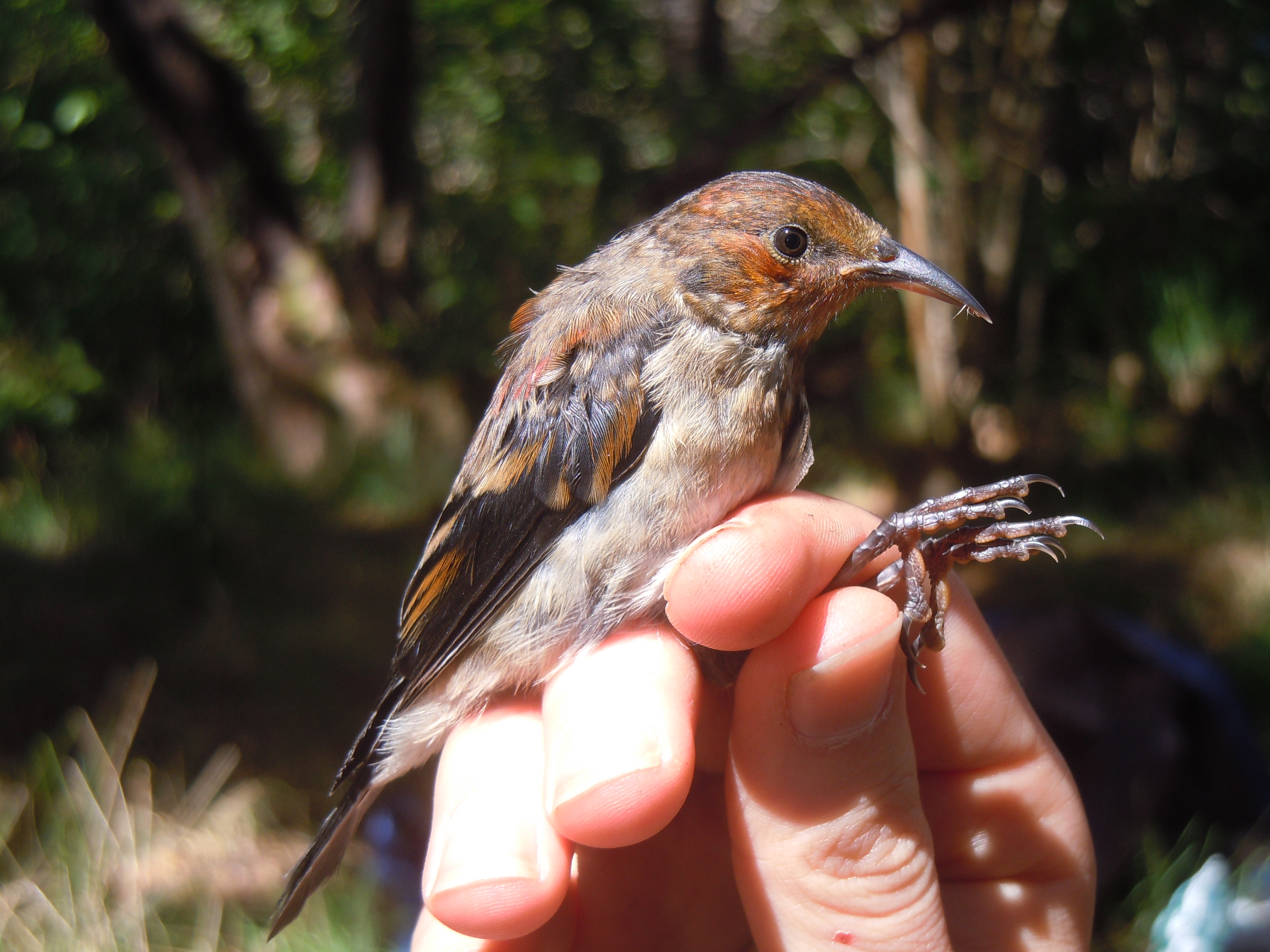 The endangered 'Apapane evolved in the forests of Hawai'i and is found nowhere else in the world. This bird was banded and released back to the forest. Hakalau Forest National Wildlife Refuge, HI March 2012 Photo: Noah Kahn/USFWS